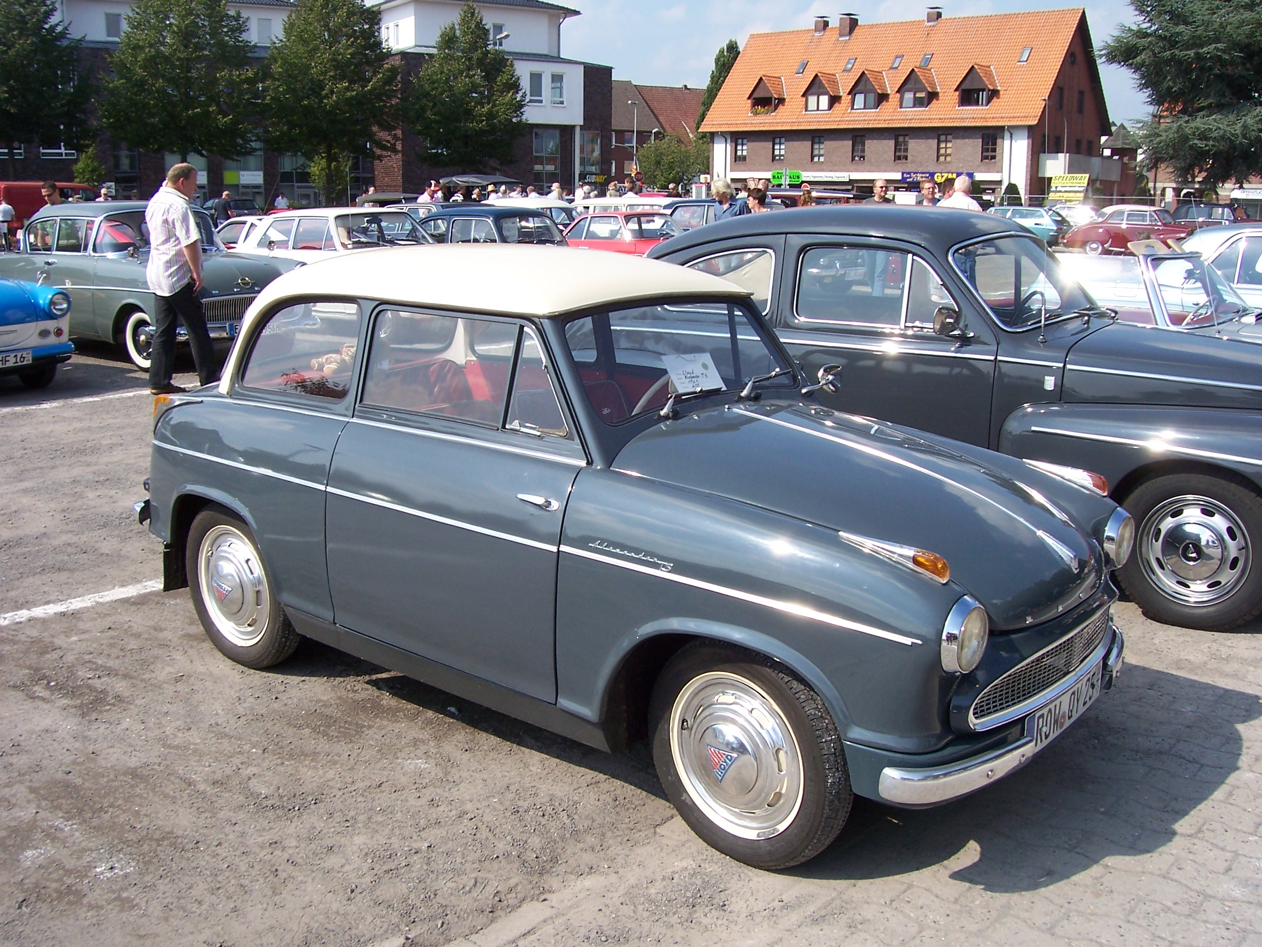 1961 Lloyd Alexander TS